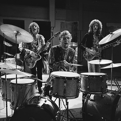 Cream performing on the Dutch television program Fanclub in 1968.